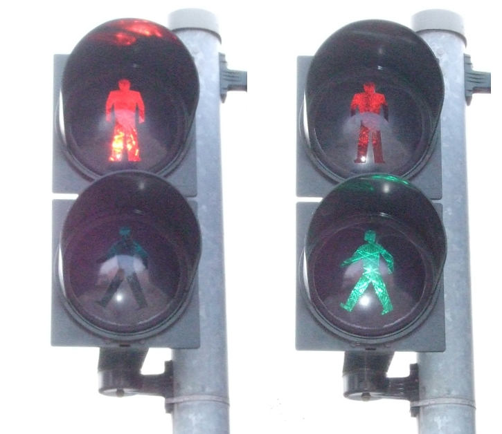 Ampelmännchen (West German variation) in Chemnitz, Germany